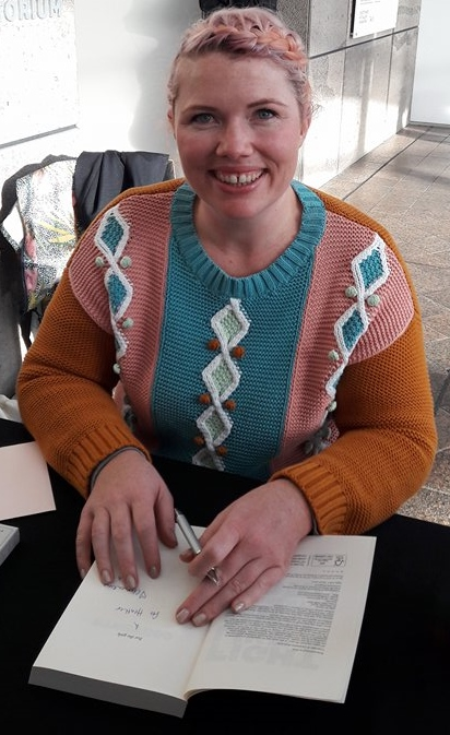 Clementine Ford at a book signing in Christchurch, New Zealand, Sept 2017